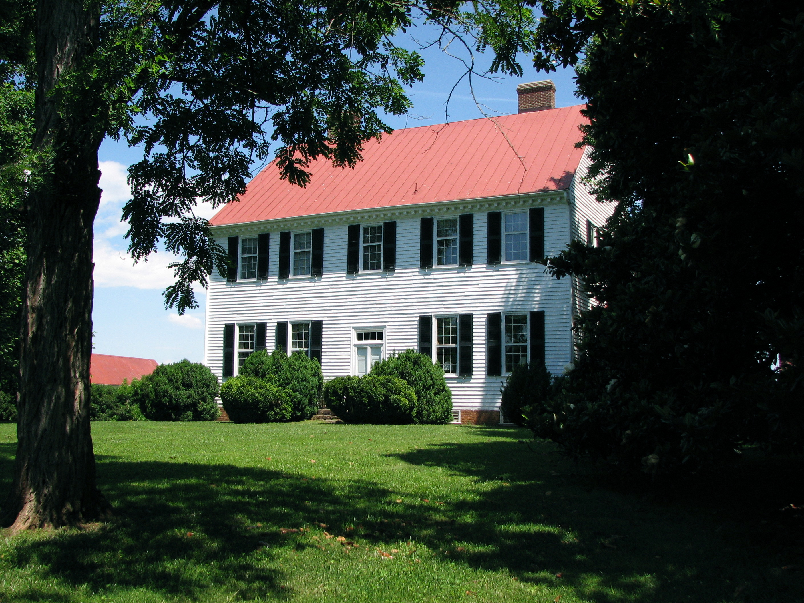 The mansion at Prospect Hill in Spotsylvania County, Virginia. The house was built in 1811 and is now the Littlepage Inn. Listed on the National Register of Historic Places.